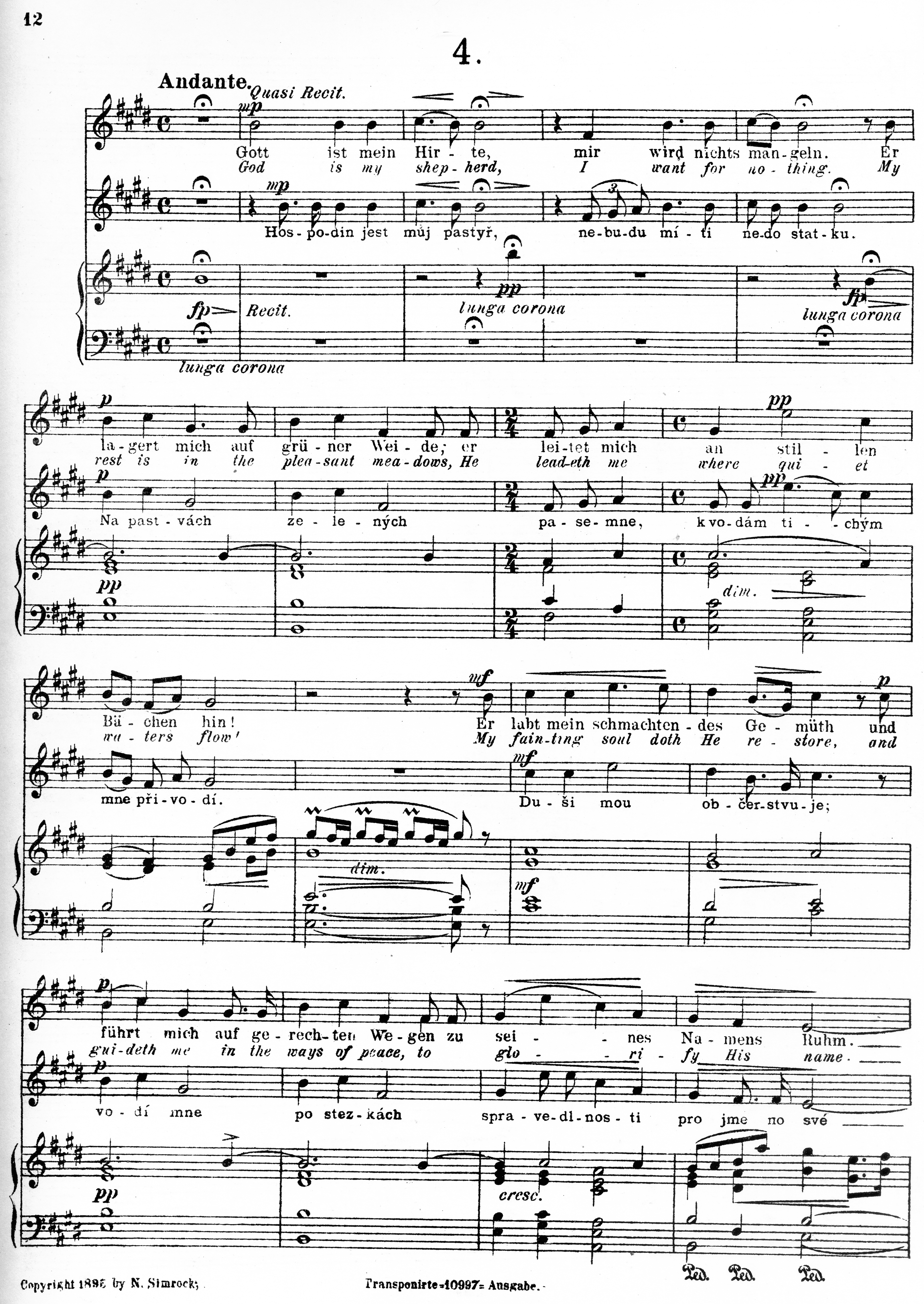 Antonín Dvořák's Biblícké Písně (Biblical Songs) Op. 99 (1884). Book 1 containing Songs 1-5. While Dvorak later orchestrated the work, this the complete original piano-and-voice version. While the massacre of the original music to fit the German and English is appalling, it does contain the original Czech, and the original music for the Czech. The German and English should probably be considered only as a translation. This is the first five songs (out of ten), the other five are printed in a second volume I have not yet tracked down. I haven't been able to find Book 2, unfortunately.